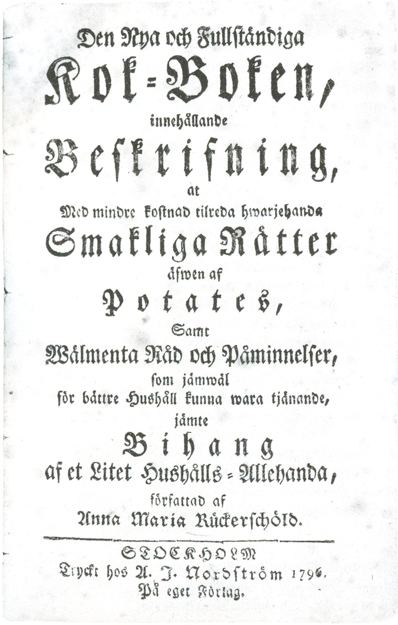 Title page of Den Nya och Fullständiga Kok-Boken ("The new and complete cookbook"), written by Anna Maria Rückerschöld, published in 1796.